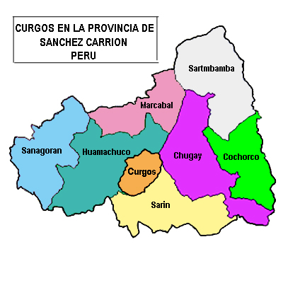 I, the author of this work, publish it under the following license (see below)